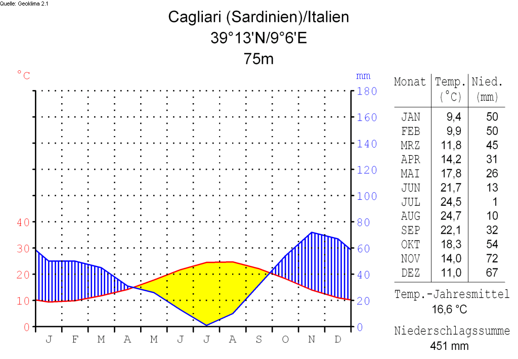 climate chart in the format by Walter and Lieth, metric, °Celsisus and millimeters, made with Geoklima 2.1